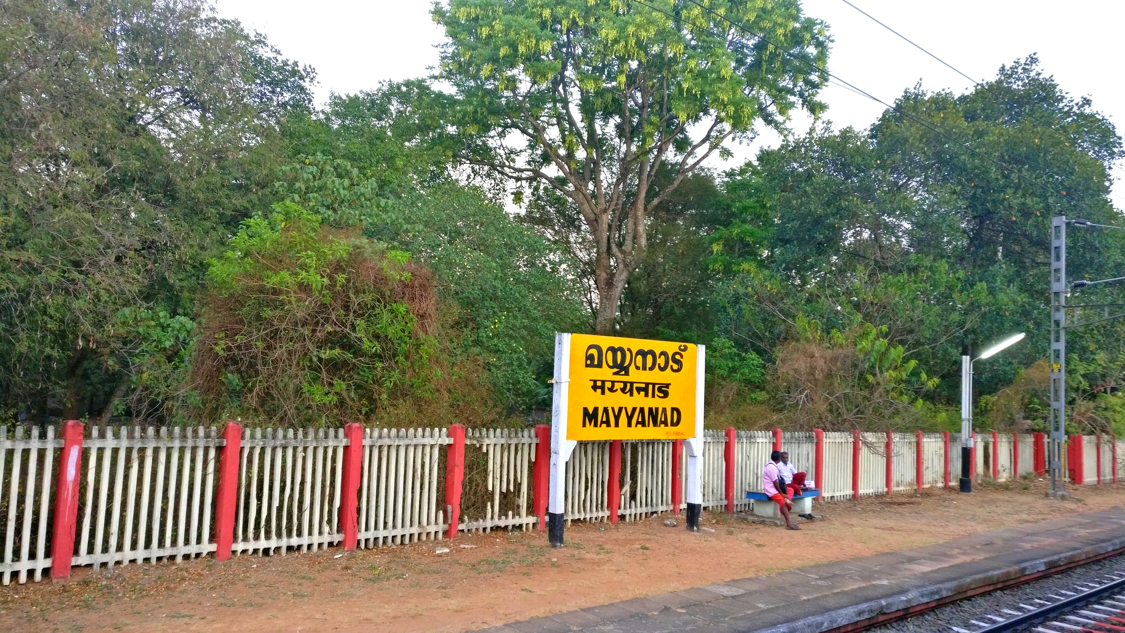 Mayyanad railway station - A railway station in between Iravipuram & Paravur railway stations.